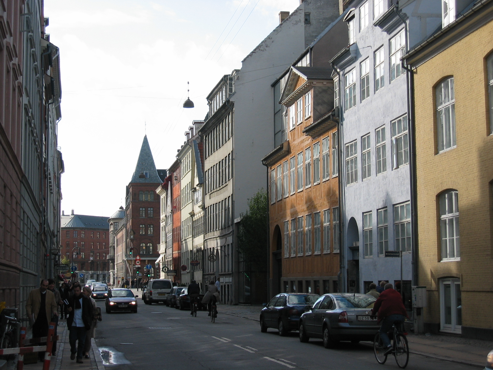 The southernmost part of Toldbodgade in Copenhagen, Denmark. Hotel Bethel seen in the background.